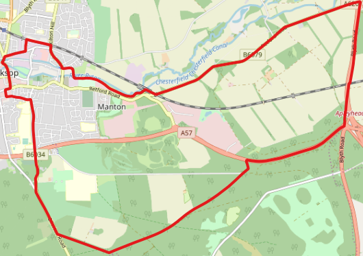 Map of the Worksop South East ward of Bassetlaw. This map may be incomplete, and may contain errors. Don't rely solely on it for navigation.